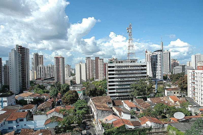 Belem Skyline from Reduto Neighborhood